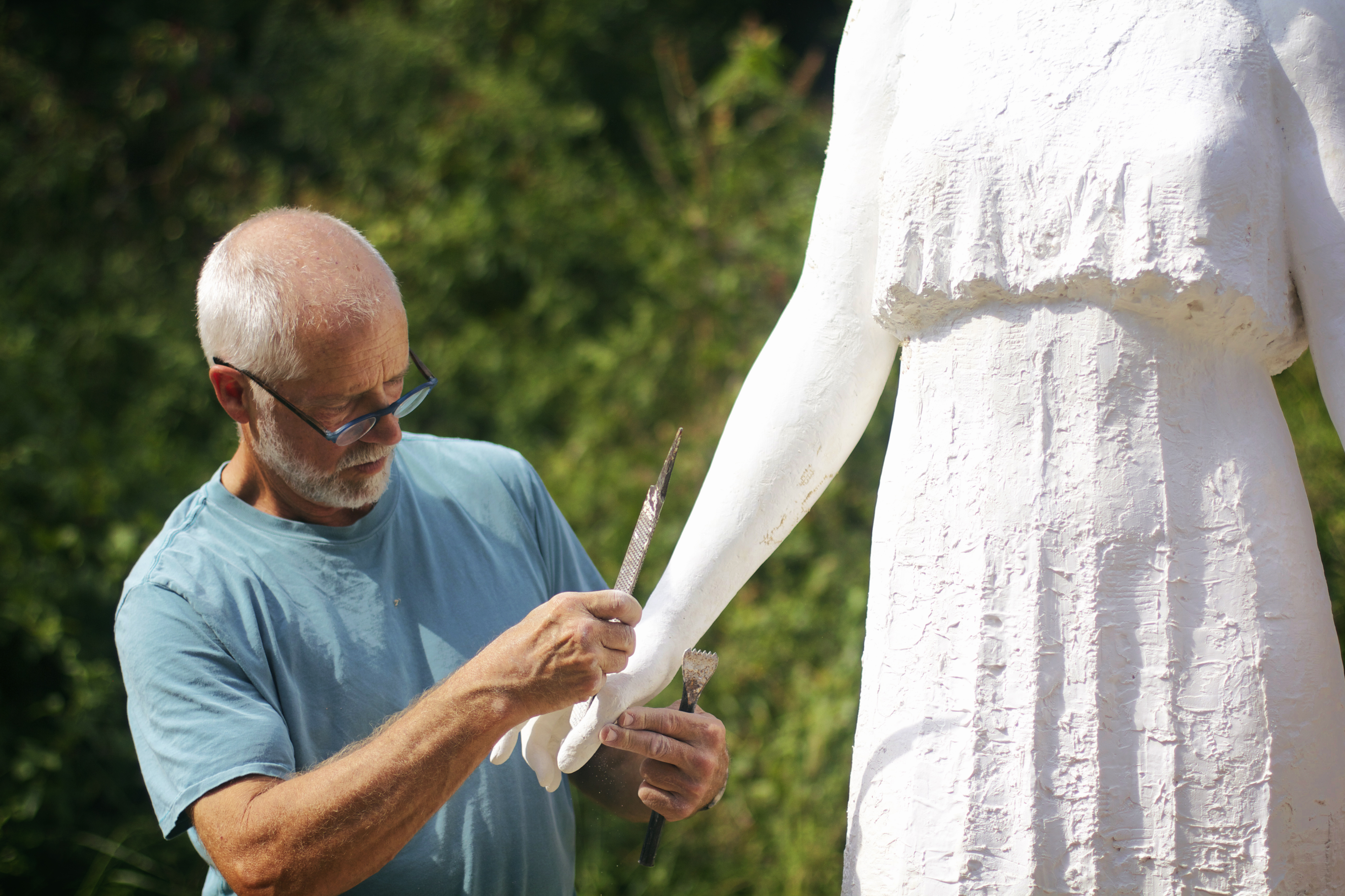 James Barnhill working on a sculpture